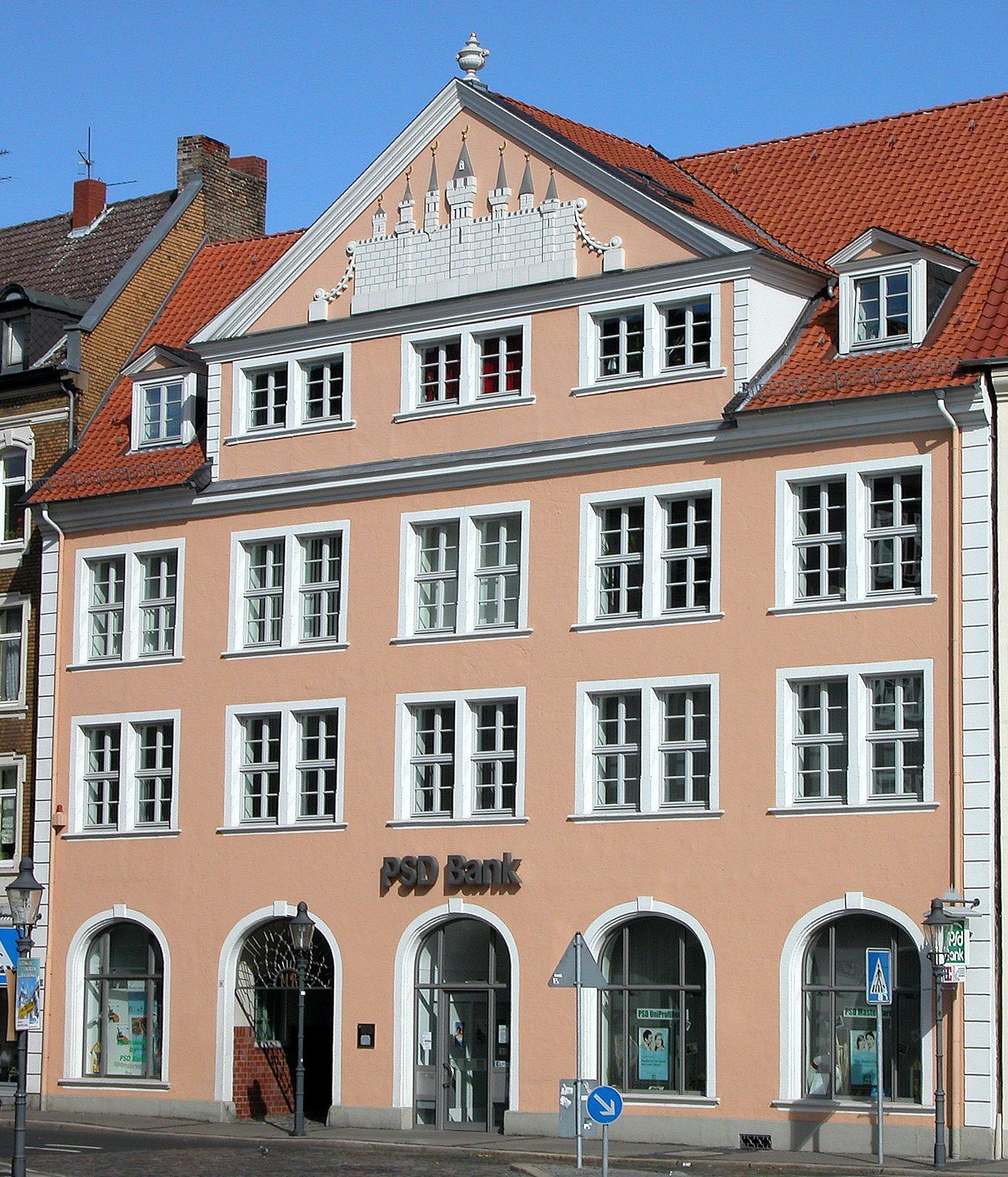 Braunschweig, Germany: 7-Towers-House.